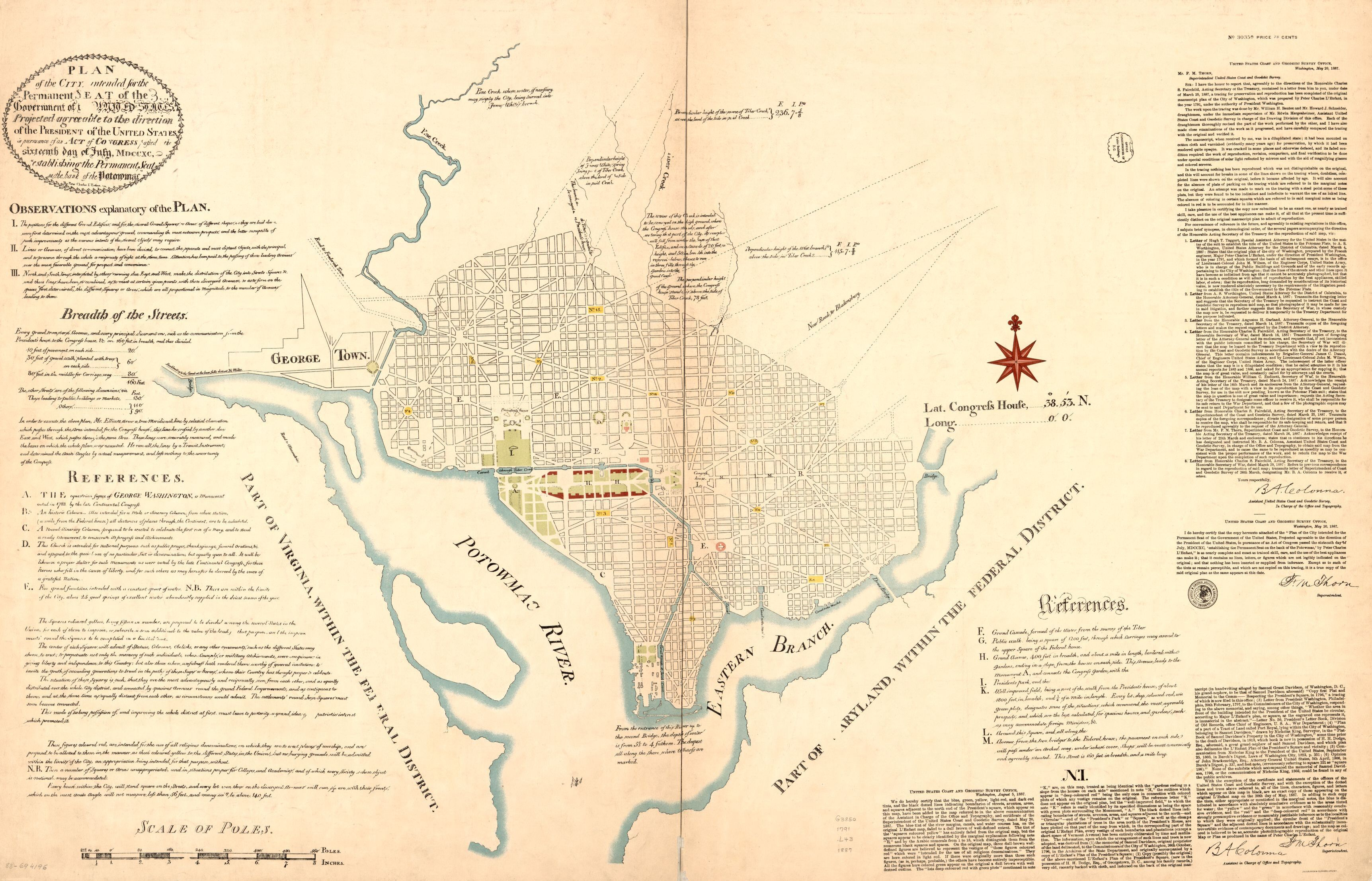 Original L'Enfant Plan of Washington from national archives